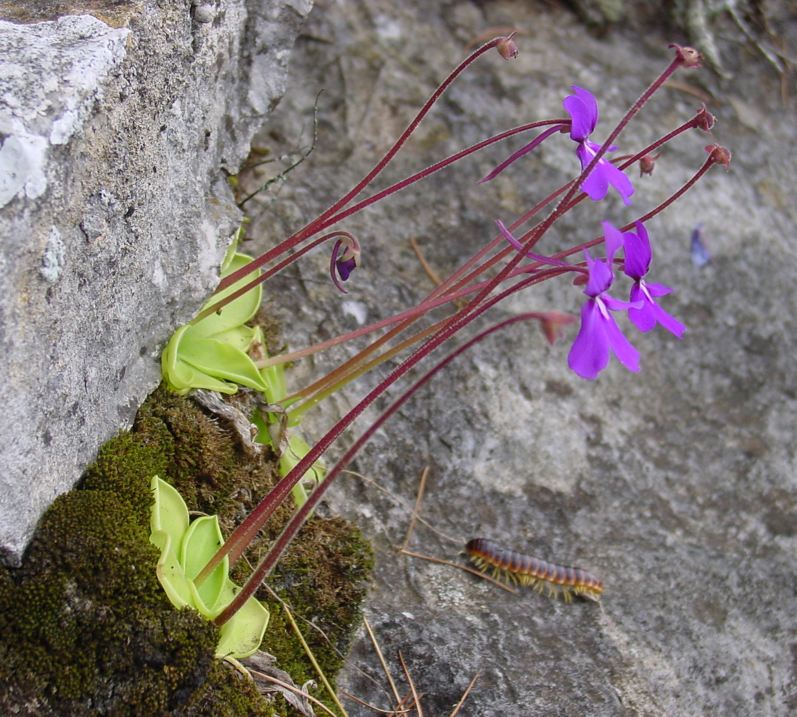 Pinguicula moranensis growing in Queretaro, Mexico